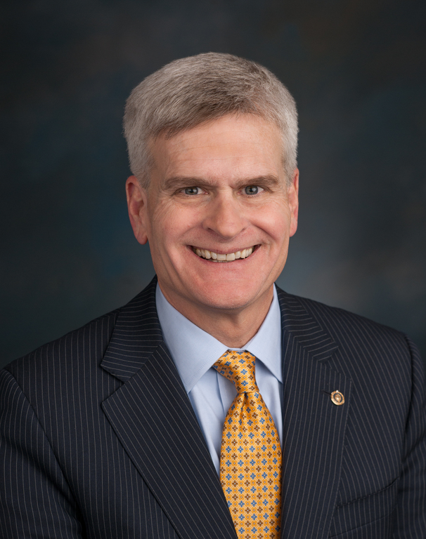 Bill Cassidy official photo, 114th Congress